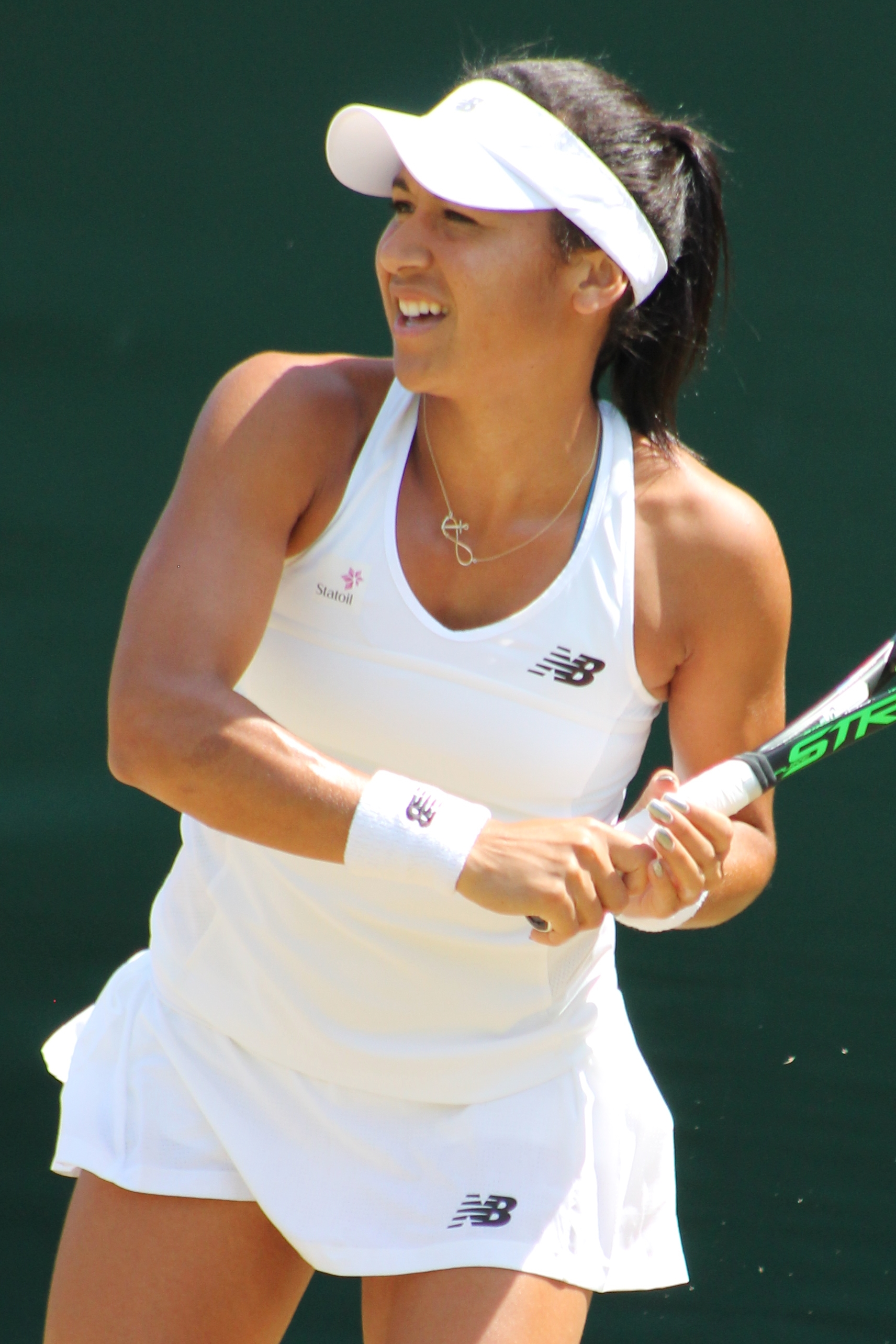 Watson WM15 (8)